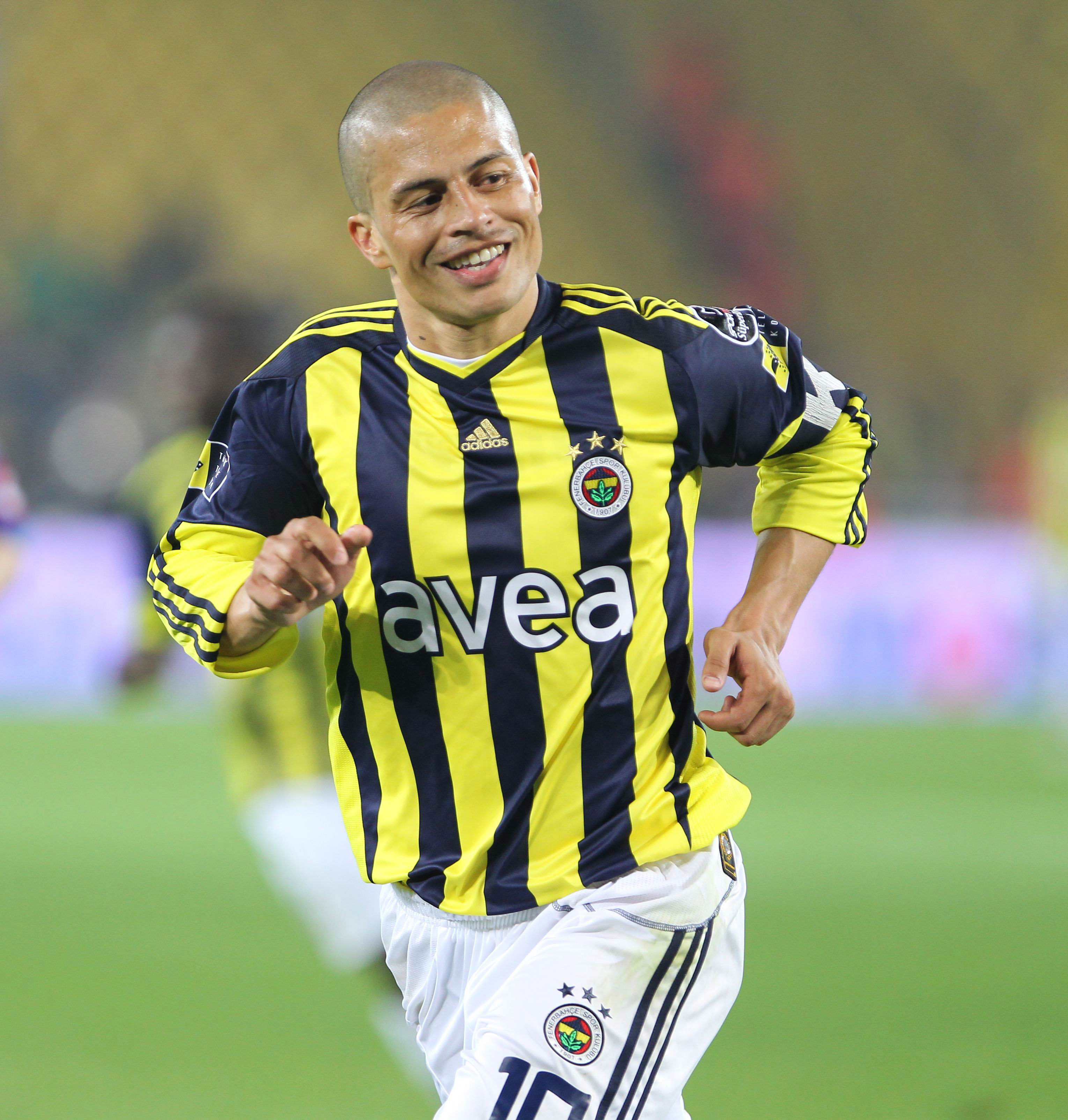 Alexsandro de Souza and Fenerbahçe jersey.